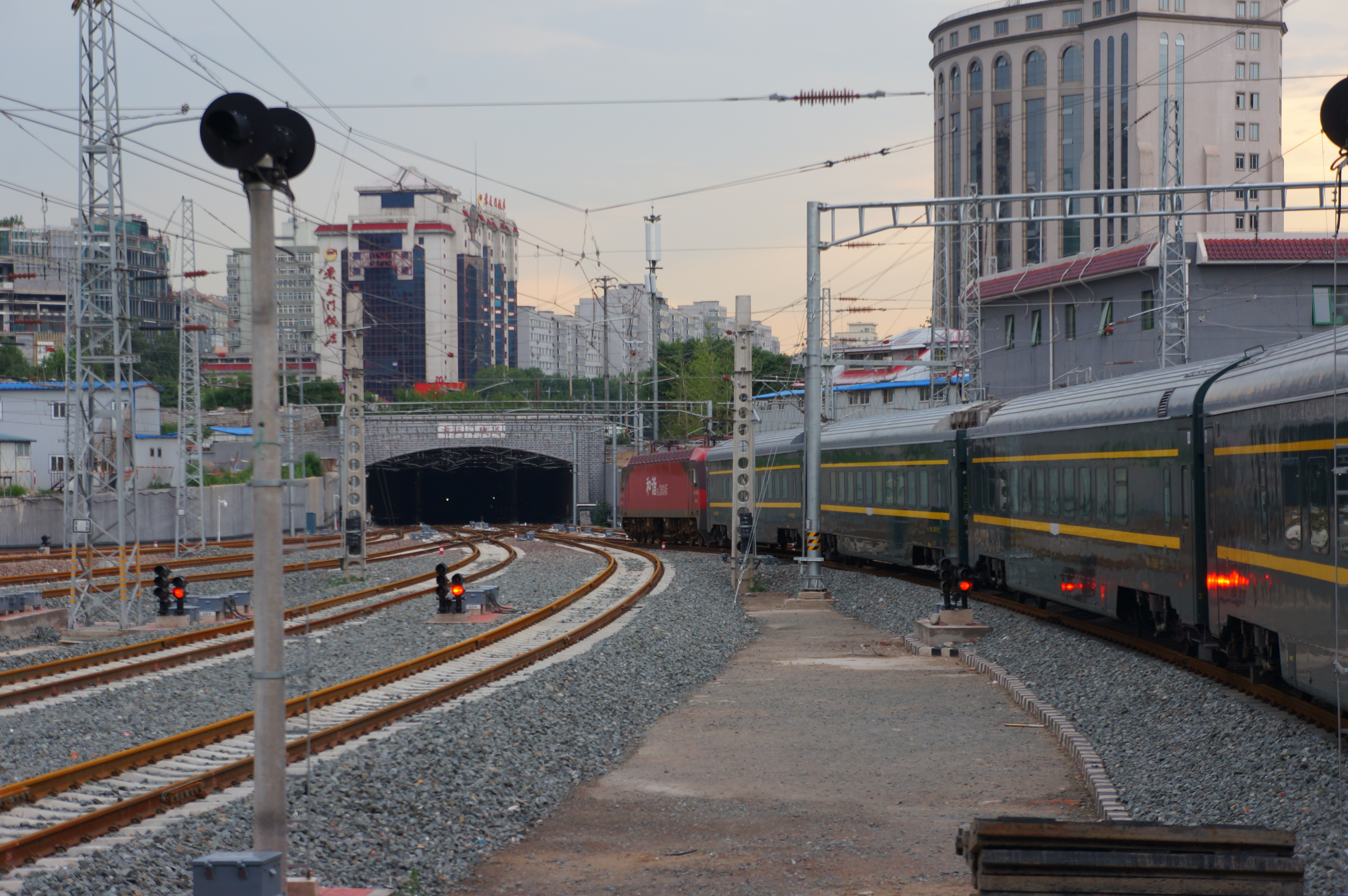 201606 Z622 enters into Beijing underground tunnel